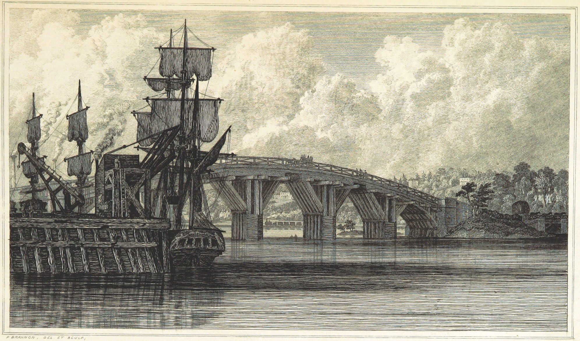 The original wooden Northam Bridge, opened in 1799, and pictured here in the early 19th Century. This image is derived from an image in a book in the public domain, uploaded to the Flickr Commons by the British Library. Details of that image follow: Image taken from page 81 of 'The Picture of Southampton, and Stranger's Hand-Book to every object of interest in the town and neighbourhood; with numerous highly-finished steel engravings ... Second and complete edition' Image taken from: Title: "The Picture of Southampton, and Stranger's Hand-Book to every object of interest in the town and neighbourhood; with numerous highly-finished steel engravings ... Second and complete edition" Author: BRANNON, Philip. Shelfmark: "British Library HMNTS 1303.i.10." Page: 81 Place of Publishing: Southampton Date of Publishing: 1850 Publisher: Brannon Issuance: monographic Identifier: 000455612